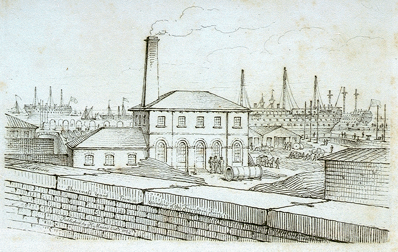 Sheerness Yard from the window of the Fountain Inn Print from Moses' 'Sketches of Shipping', entitled 'Sheerness Yard from the window of the Fountain Inn'. Signed, inscribed and dated by the artist. The view is from a bedroom window in the Fountain Inn looking north towards the Medway. There is a preparatory drawing (PAE9954) in the NMM collection. Sheerness Yard from the window of the Fountain Inn